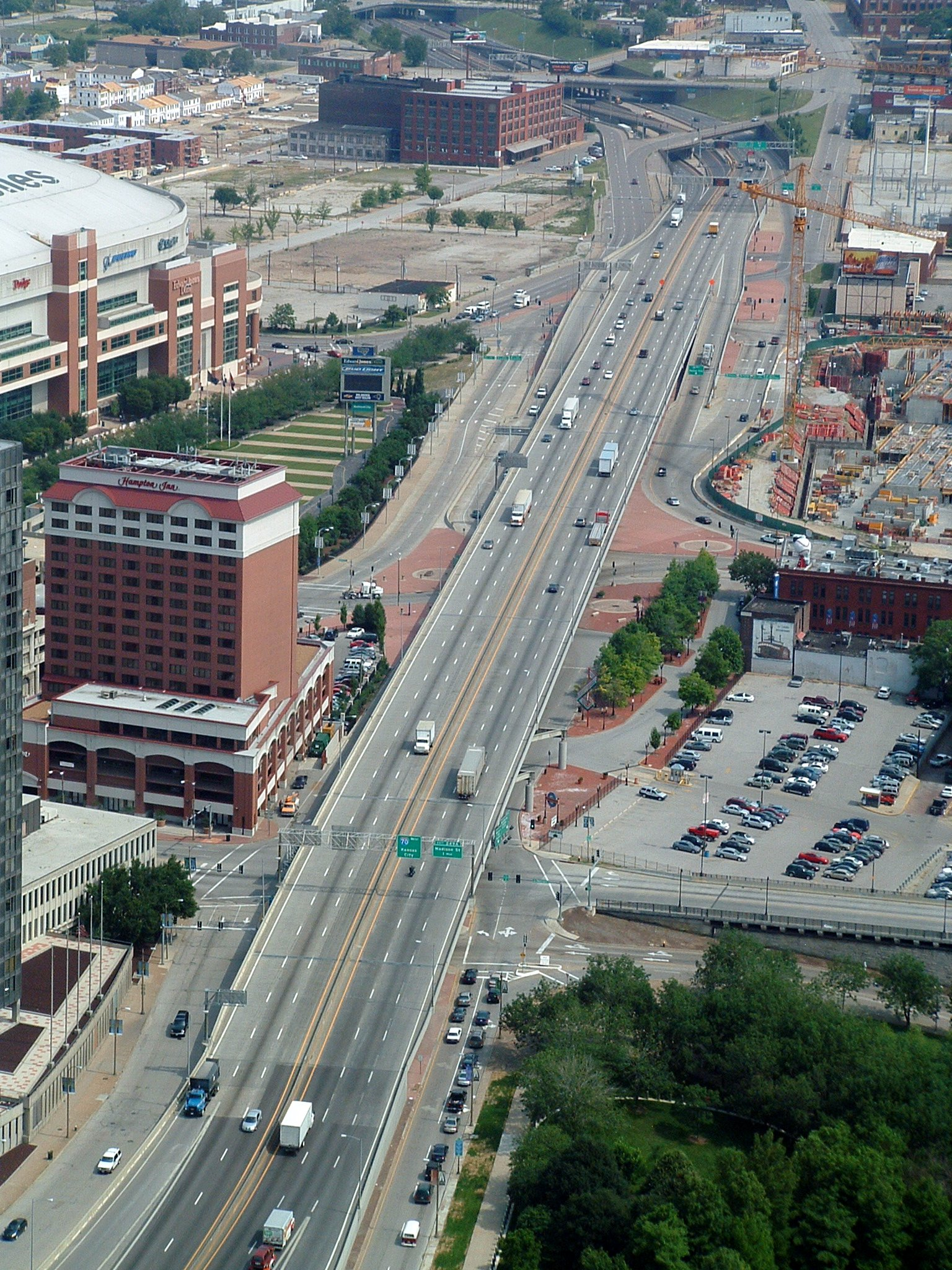 Interstate 70 passing through downtown St. Louis, Missouri. Photographed June 15, 2006 from the Jefferson National Expansion Memorial, St. Louis, Missouri by Kelly Martin.